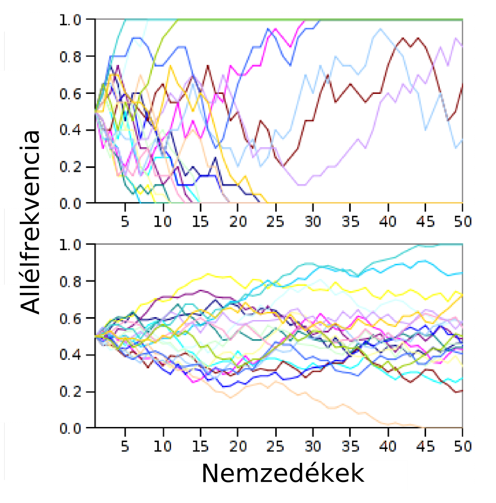 image:Allele-frequency.png with Hungarian captions.